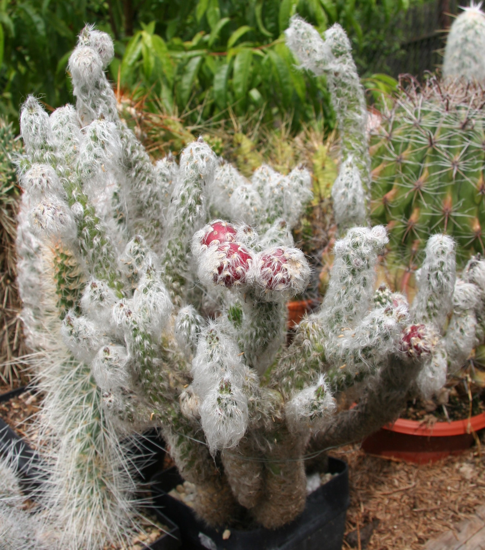 Austrocylindropuntia vestita with fruits